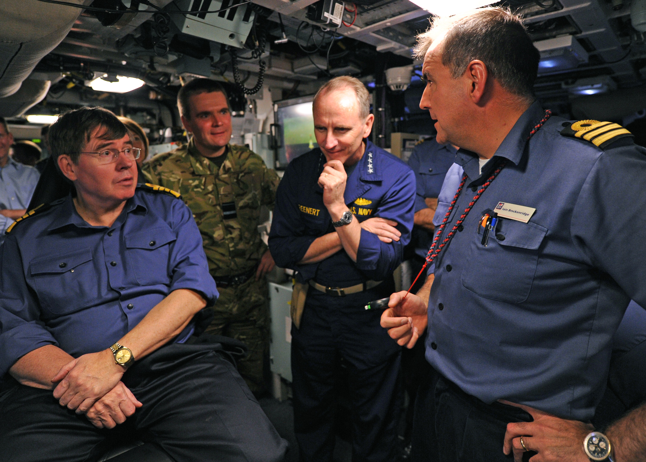 ATLANTIC OCEAN (Jan. 26, 2012) First Sea Lord and Chief of the Naval Staff of the Royal Navy Adm. Sir Mark Stanhope, left, and Chief of Naval Operations (CNO) Adm. Jonathan Greenert discuss the capabilities of the Royal Navy Astute-class submarine HMS Astute (SSN 20) from the boat's command center during the joint exercise Fellowship 2012 between Astute and the Virginia-class attack submarine USS New Mexico (SSN-779). Astute and New Mexico performed various tracking, deterrence and attack scenarios to test and certify each submarine's respective capabilities. (U.S. Navy photo by Mass Communication Specialist 1st Class Peter D. Lawlor/Released)